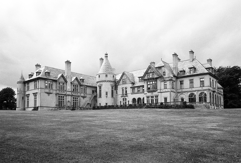 Seaview Terrace Newport RI. Formerly Carey Mansion.